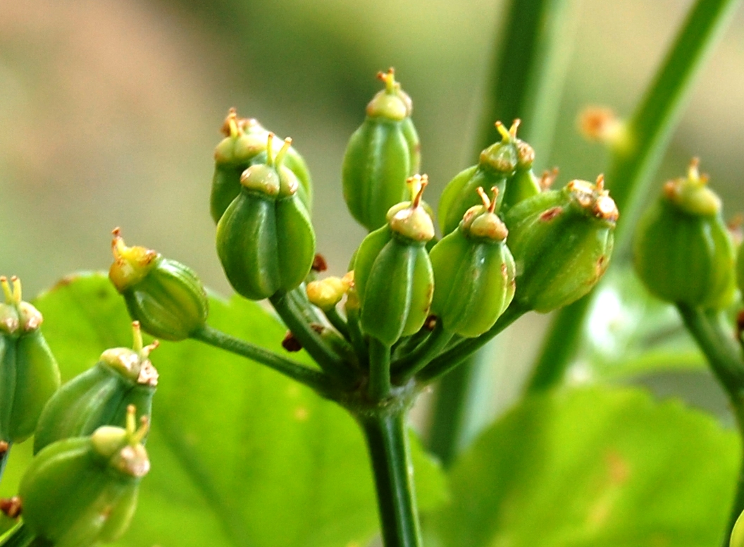 Smyrnium olusatrum, fruits.Riserva naturale Monte Cofano, Sicily